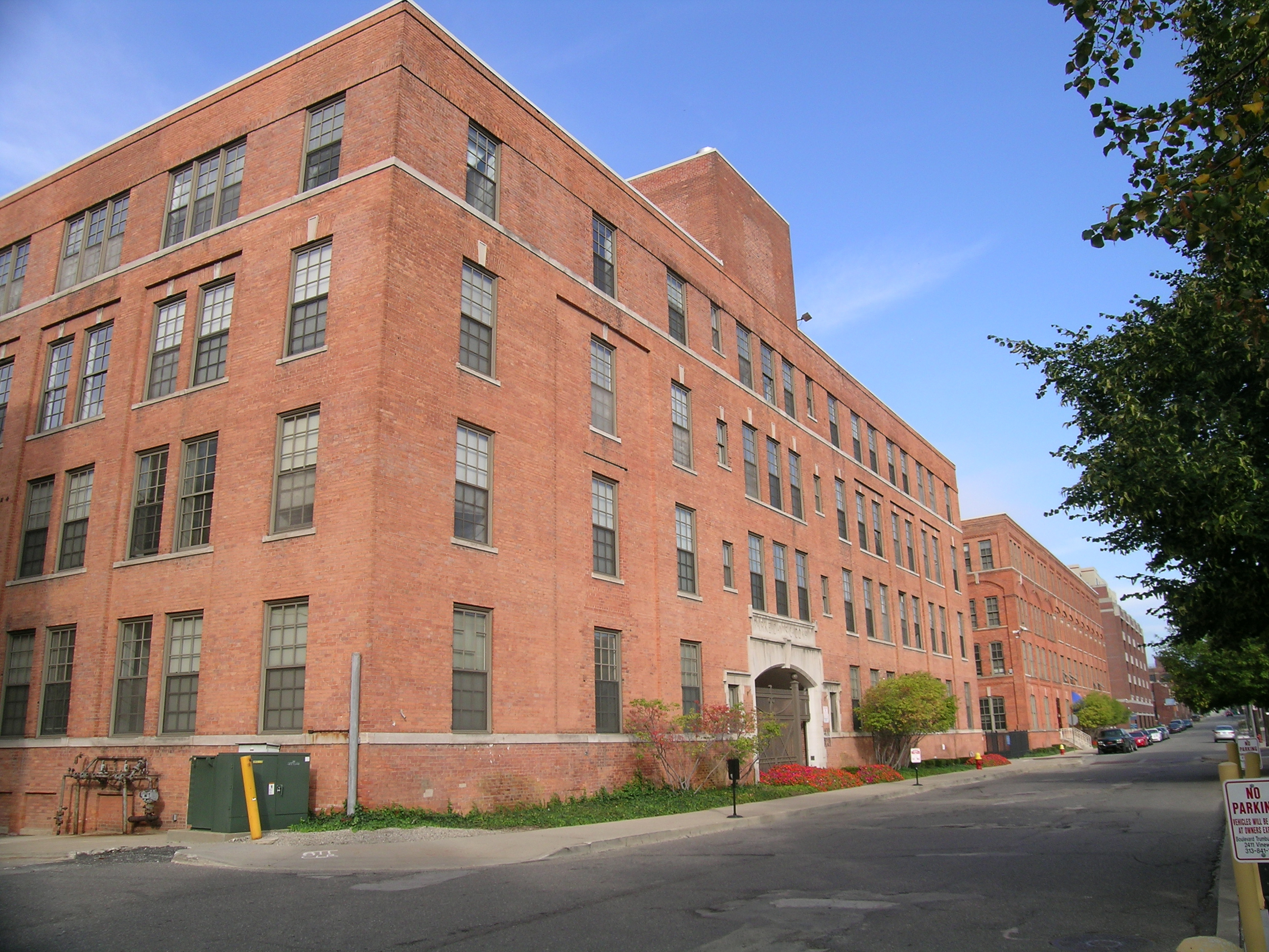 Parke-Davis Plant in Detroit MI: Looking north along McDougal Avenue